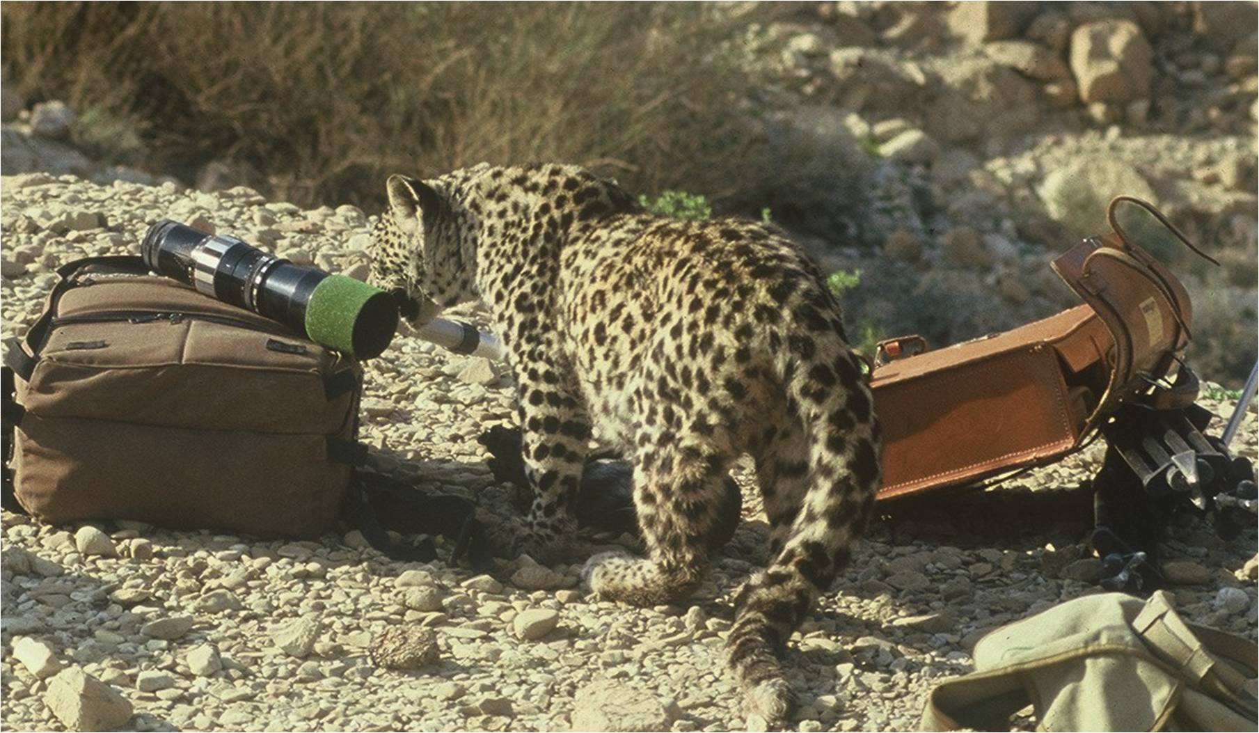 Judean Desert leopard - the leopard Thmt checking our equipment on a cliff copies at Ein Gedi